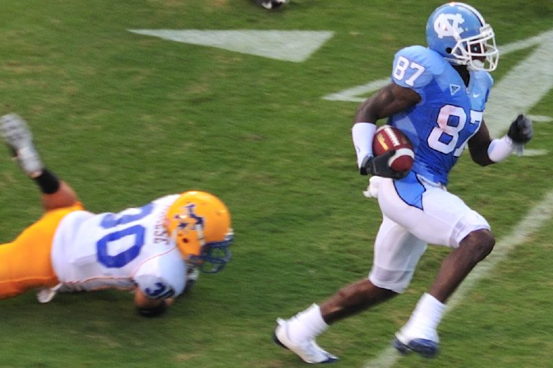 Wide receiver Brandon Tate of the North Carolina Tar Heels. Chapel Hill, North Carolina, August, 2008